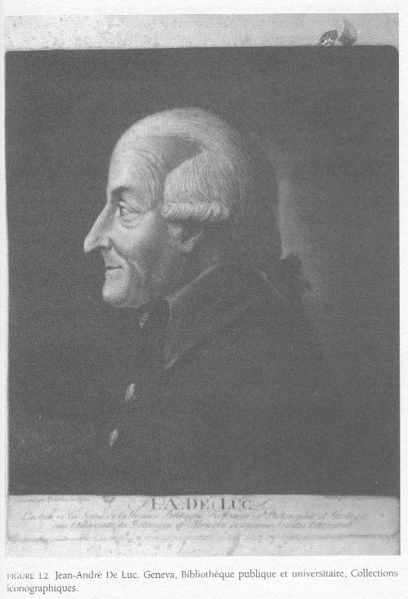 The image of Swiss geologist and meteorologist, Jean-André Deluc (1727-1817).